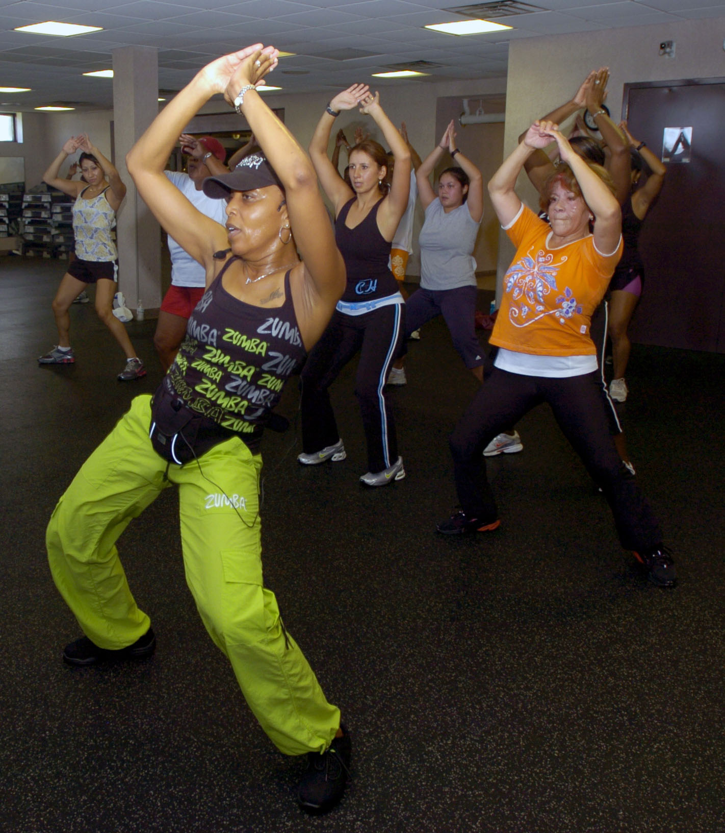 Andrea Knight, Zumba instructor, leads her class through 'salty Latin moves' while helping them maintain good fitness. Zumba was just one of the many classes during the Aerobathon at Towle Court Fitness Center Saturday.